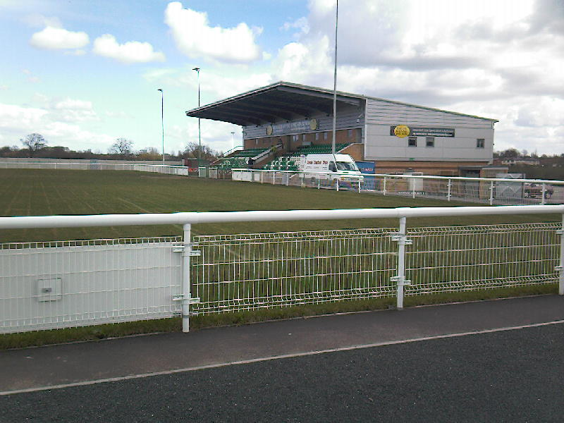 The Weaver Stadium, home of Nantwich Town F.C., photographed by me on March 30, 2008